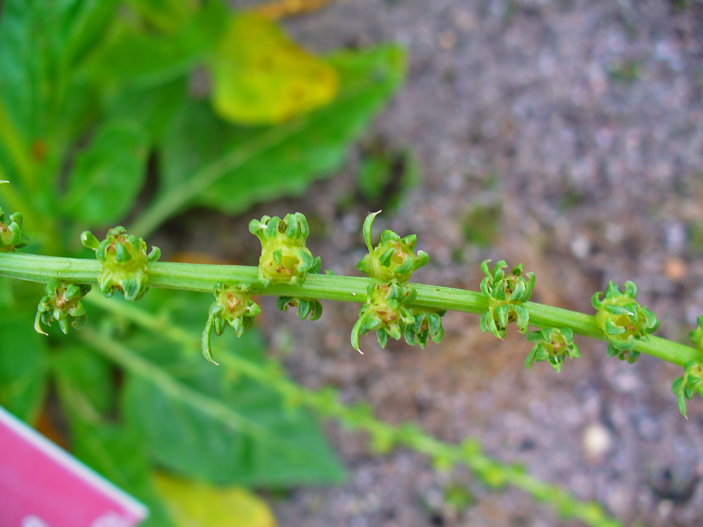 Beta vulgaris ssp. maritima, Sea Beet, flowers; Botanical Garden KIT, Karlsruhe, Germany.